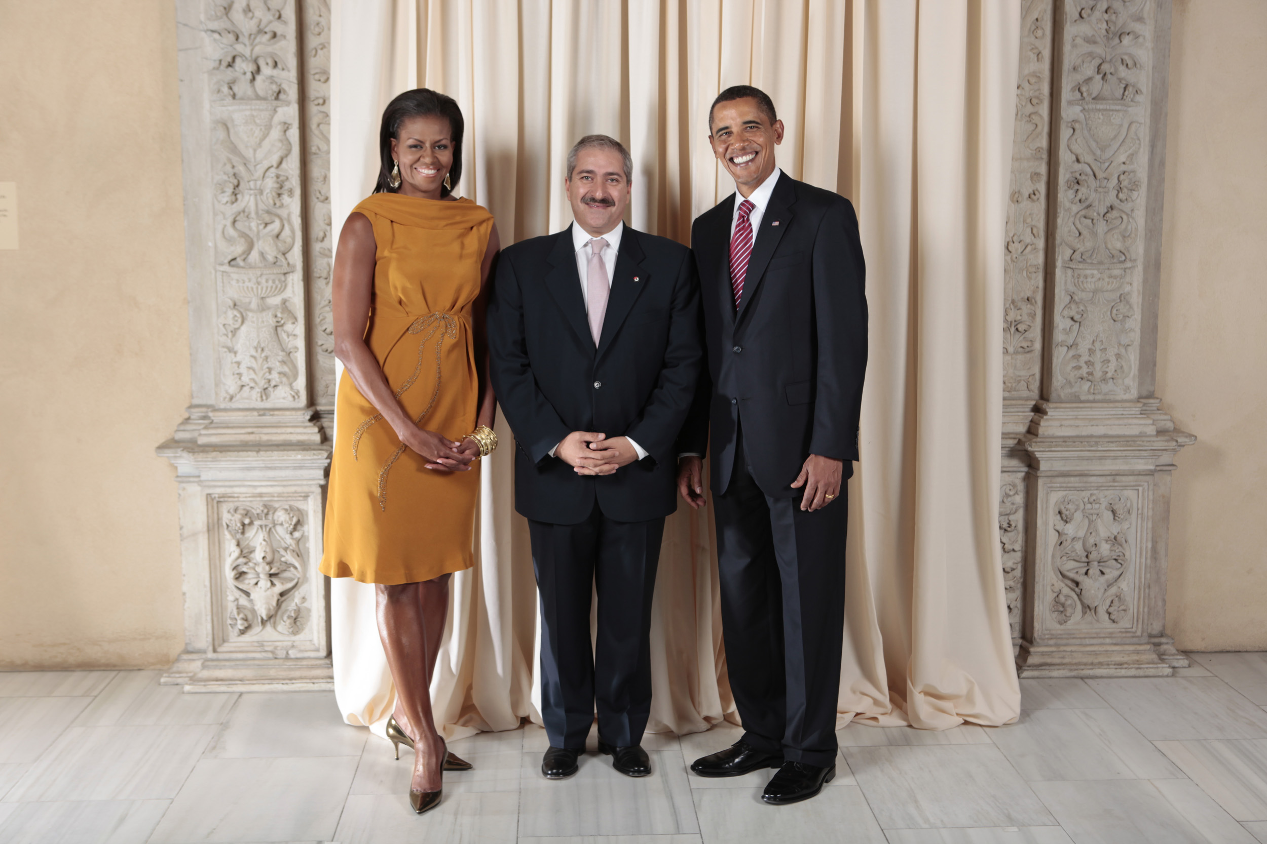 President Barack Obama and First Lady Michelle Obama pose for a photo during a reception at the Metropolitan Museum in New York with Nasser Judeh, Jordan's Minister of Foreign Affairs.